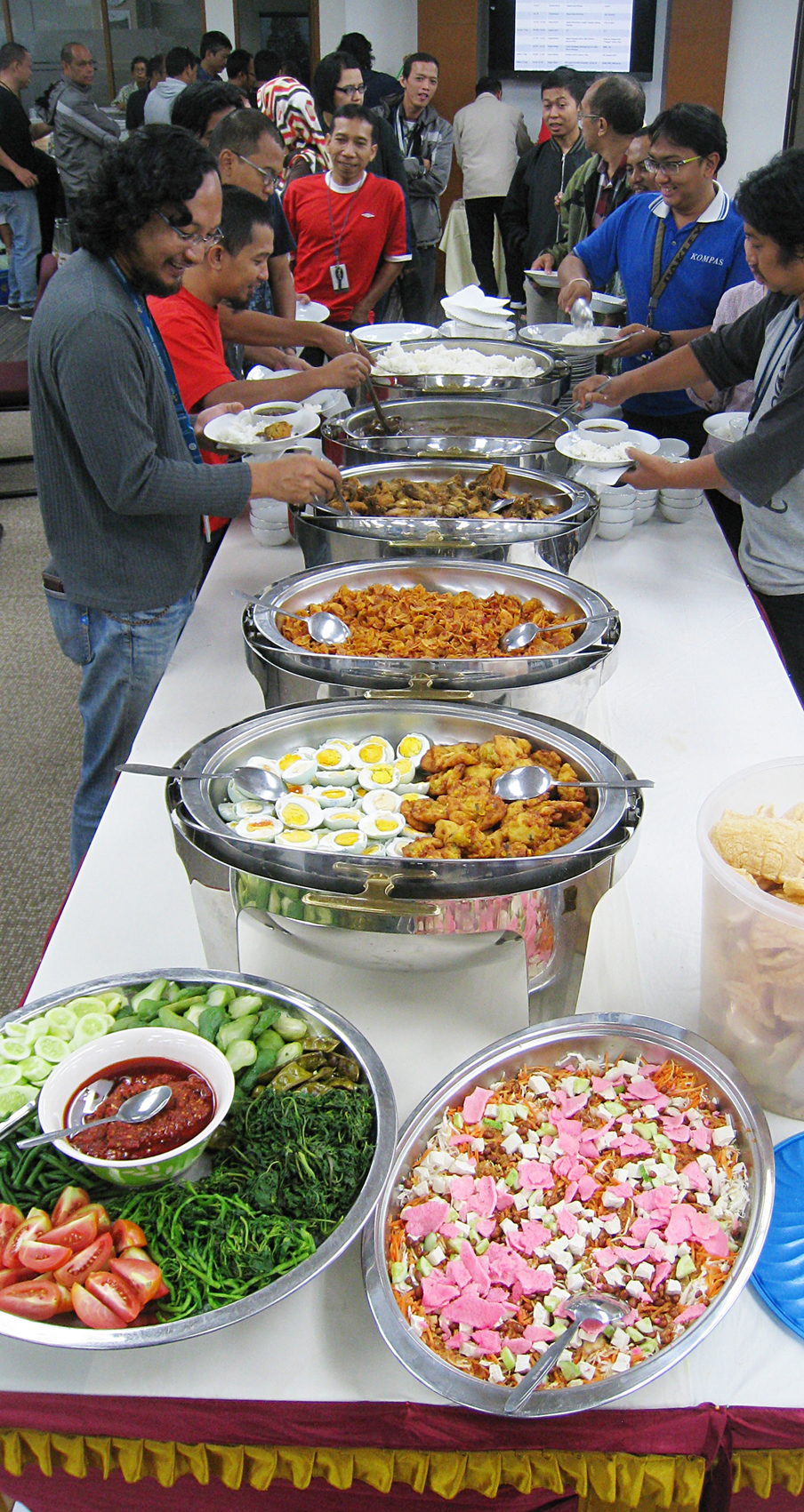 Prasmanan, an Indonesian cuisine buffet, in an office party in Jakarta, Indonesia.